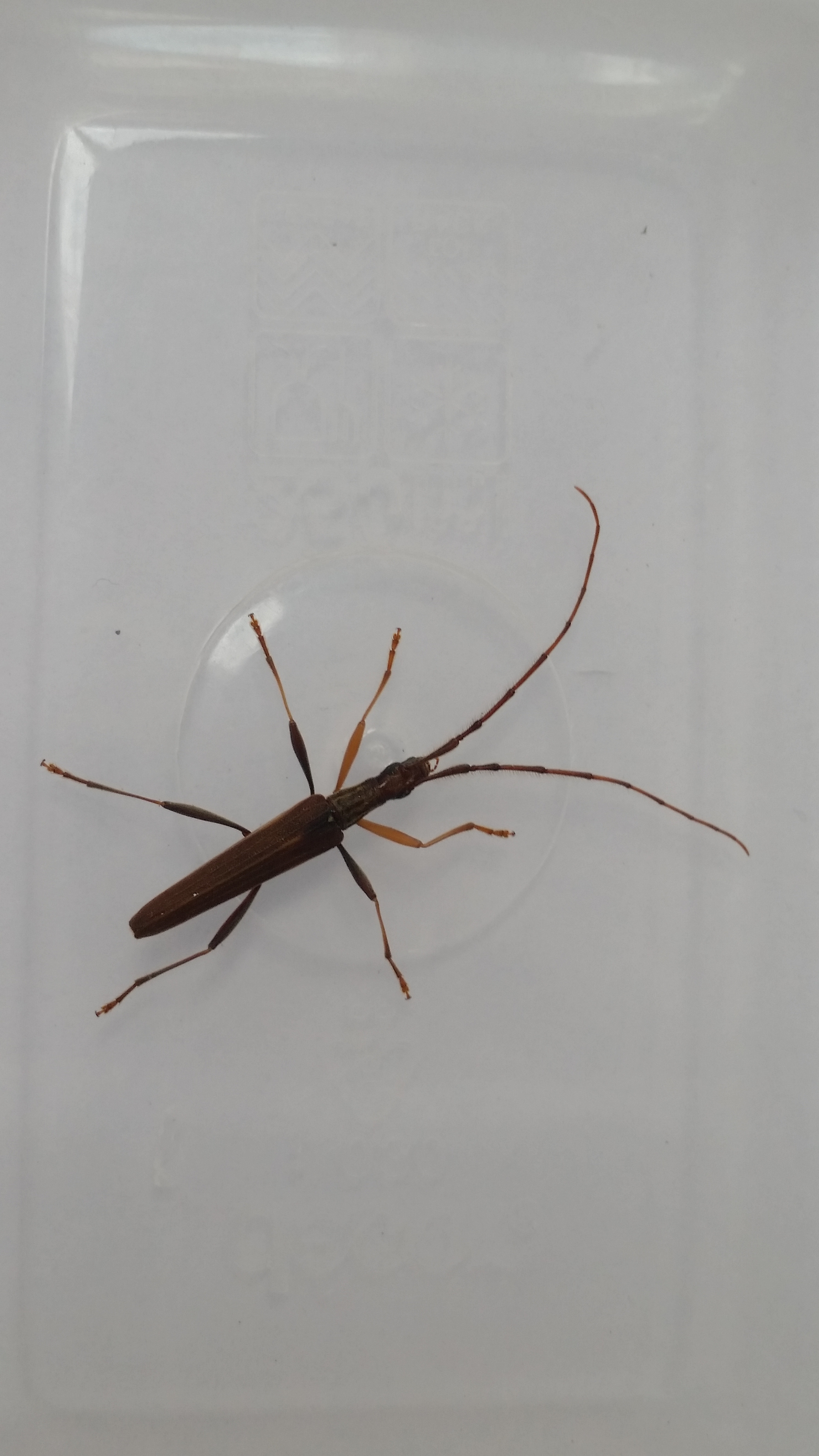 Calliprason pallidus, a long-horn beetle endemic to New Zealand.